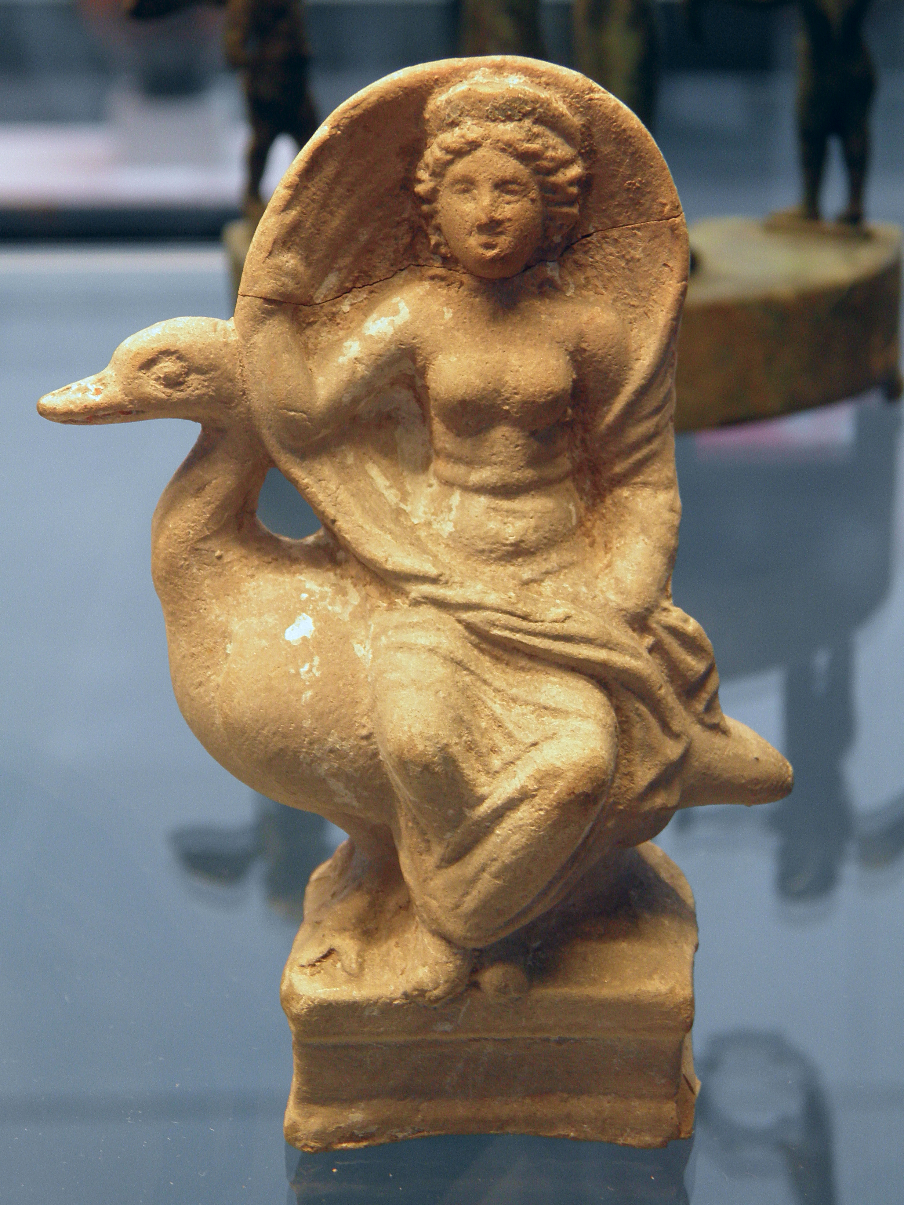 Terracotta statuette of Aphrodite Aphrodite riding on a goose, 3rd century BC, Staatliche Antikensammlungen, Munich